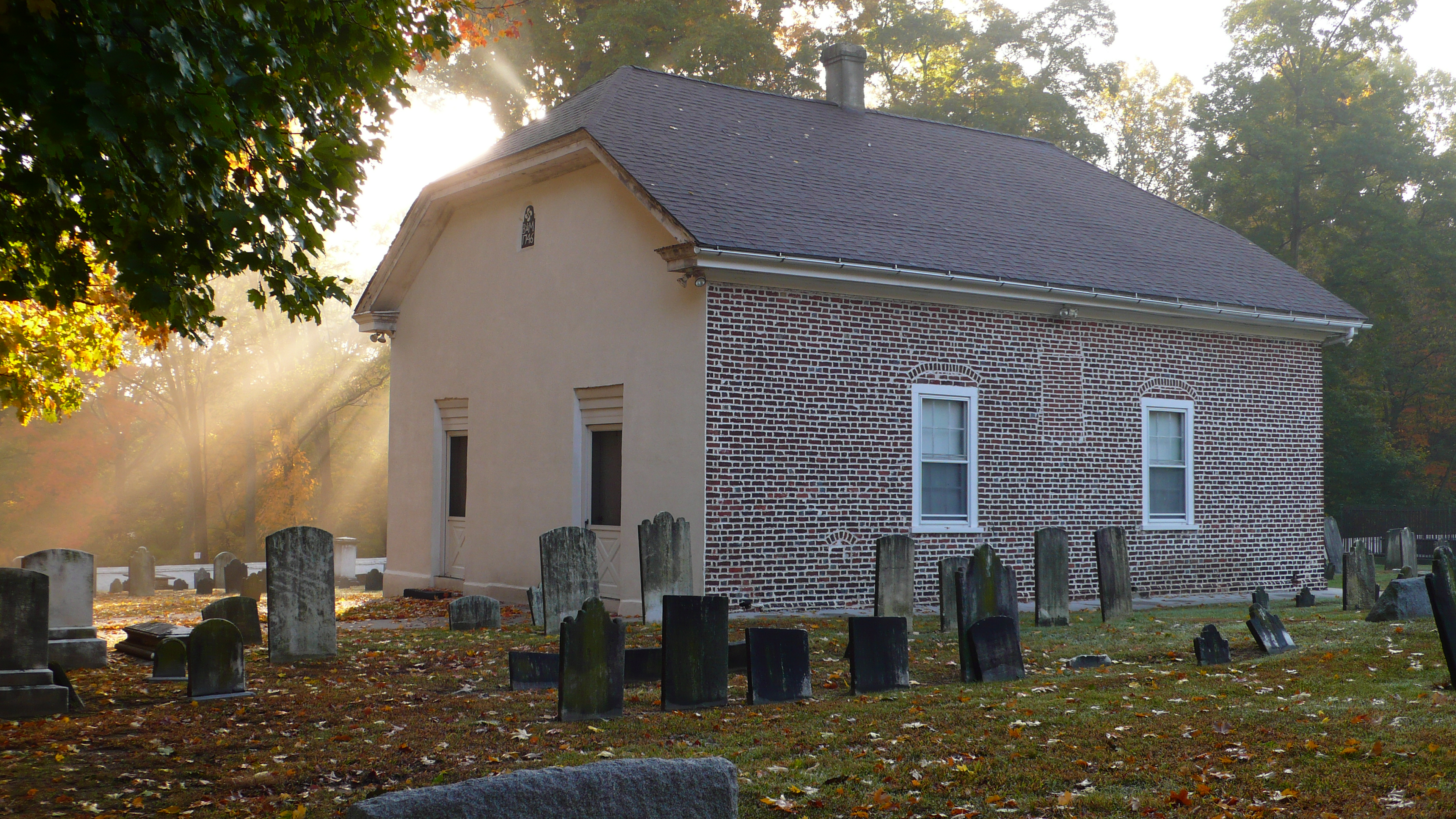 Welsh Tract Baptist Church in Newark, Delaware, listed on the National Register of Historic Places